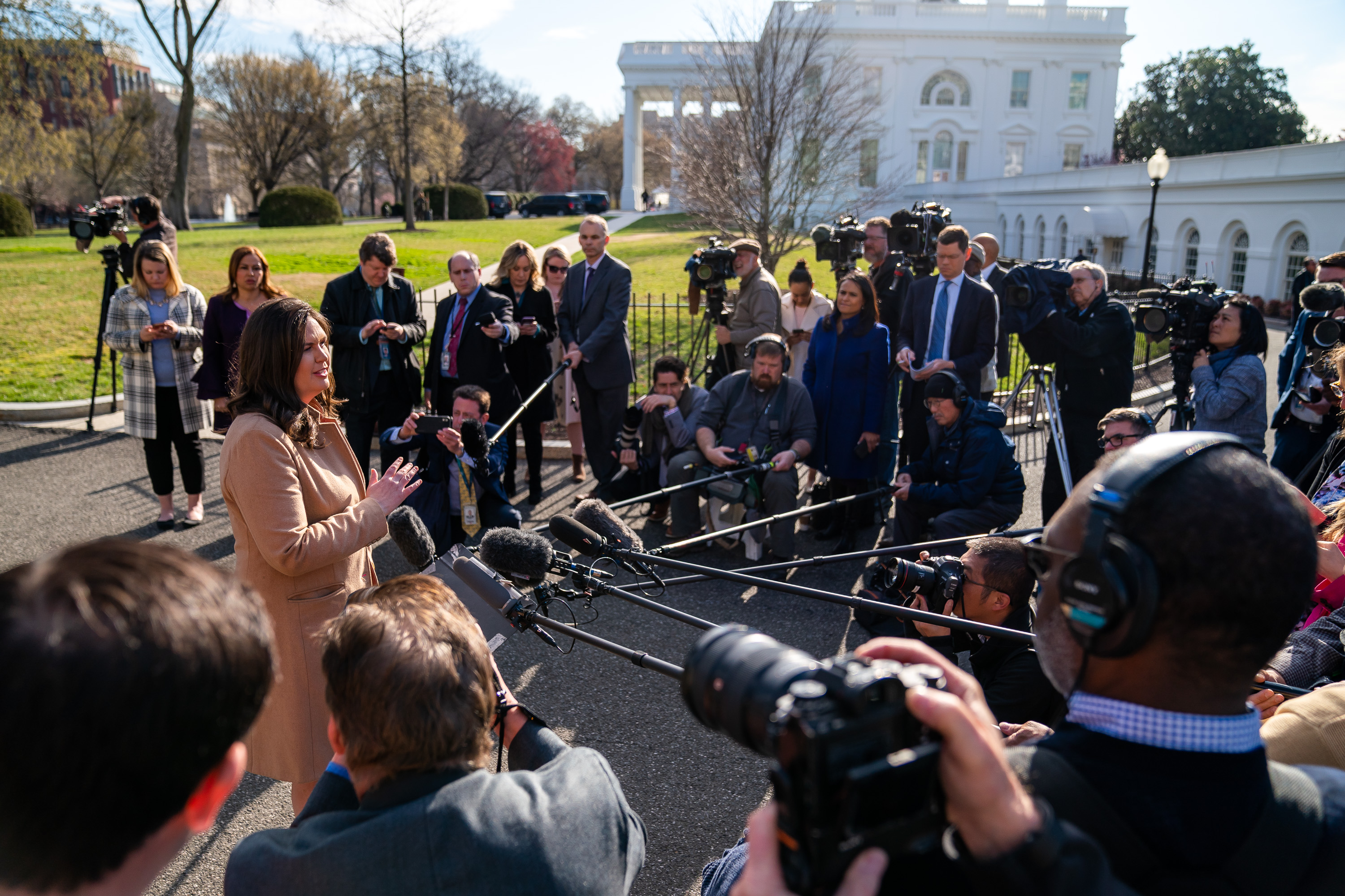 White House Press Secretary Sarah Sanders meets with reporters Monday morning, March 25, 2019, on the driveway outside the West Wing entrance to the White House. (Official White House Photo by Tia Dufour)